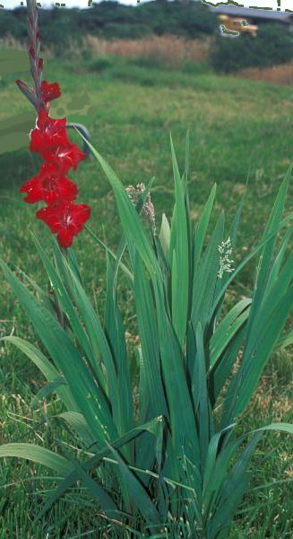 Gladiolus hybrid, Grandiflorus group - habit